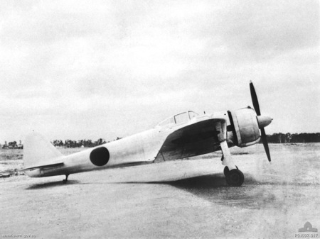 A Japanese Nakajima Ki-43-I Hayabusa at Brisbane, Queensland (Australia) in 1943. After its capture it was rebuilt by the Technical Air Intelligence Unit (TAIU) in Hangar 7 at Eagle Farm, Brisbane. It was painted with Japanese markings for recognition photos but flown with US markings.